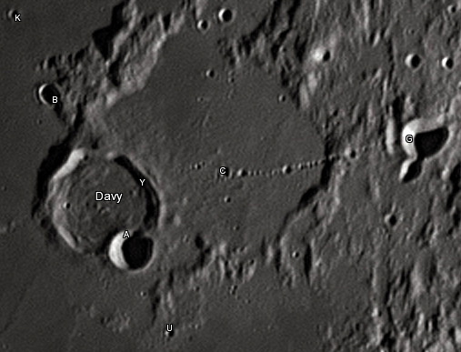 Davy lunar crater as seen from Earth with satellite craters labeled